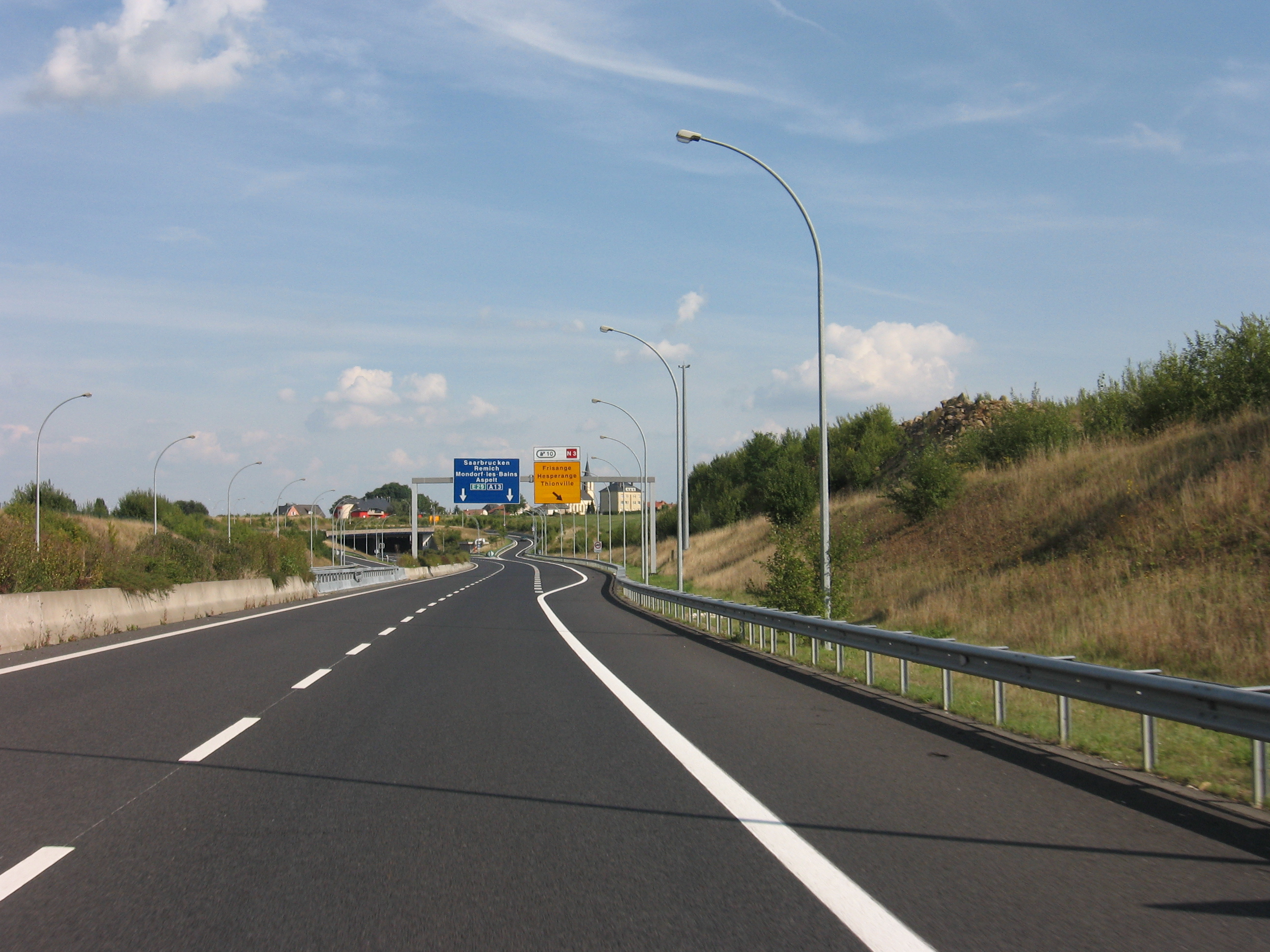 A13 (Luxemburg) bei Frisange